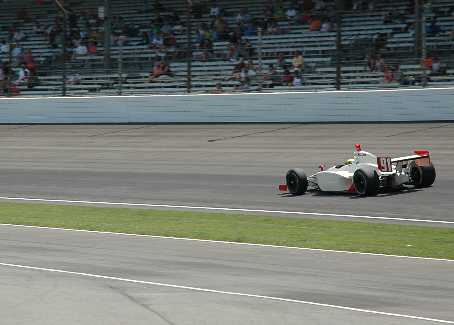 Richie Hearn practicing for the en:2007 Indianapolis 500DSC_0093